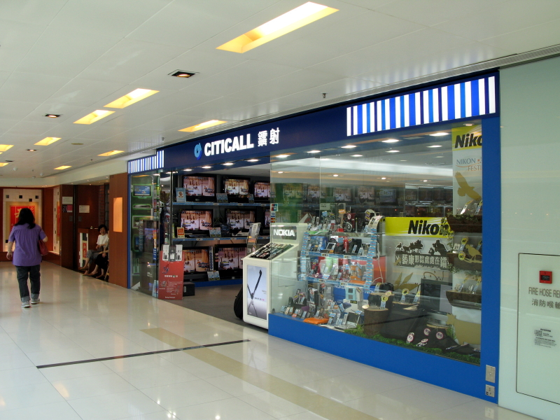 Citicall Store in Shatin New Town Plaza